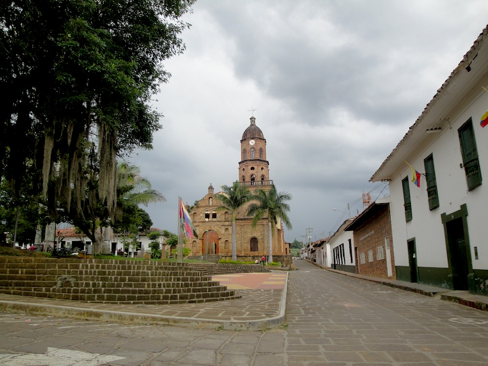 Iglese de San Joaquin in Curiti, Santander, Colombia - photo taken July 2011 by Anne T Sargent.